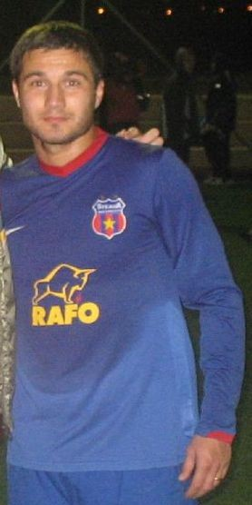 Depicted person: Marius Croitoru – Romanian footballer